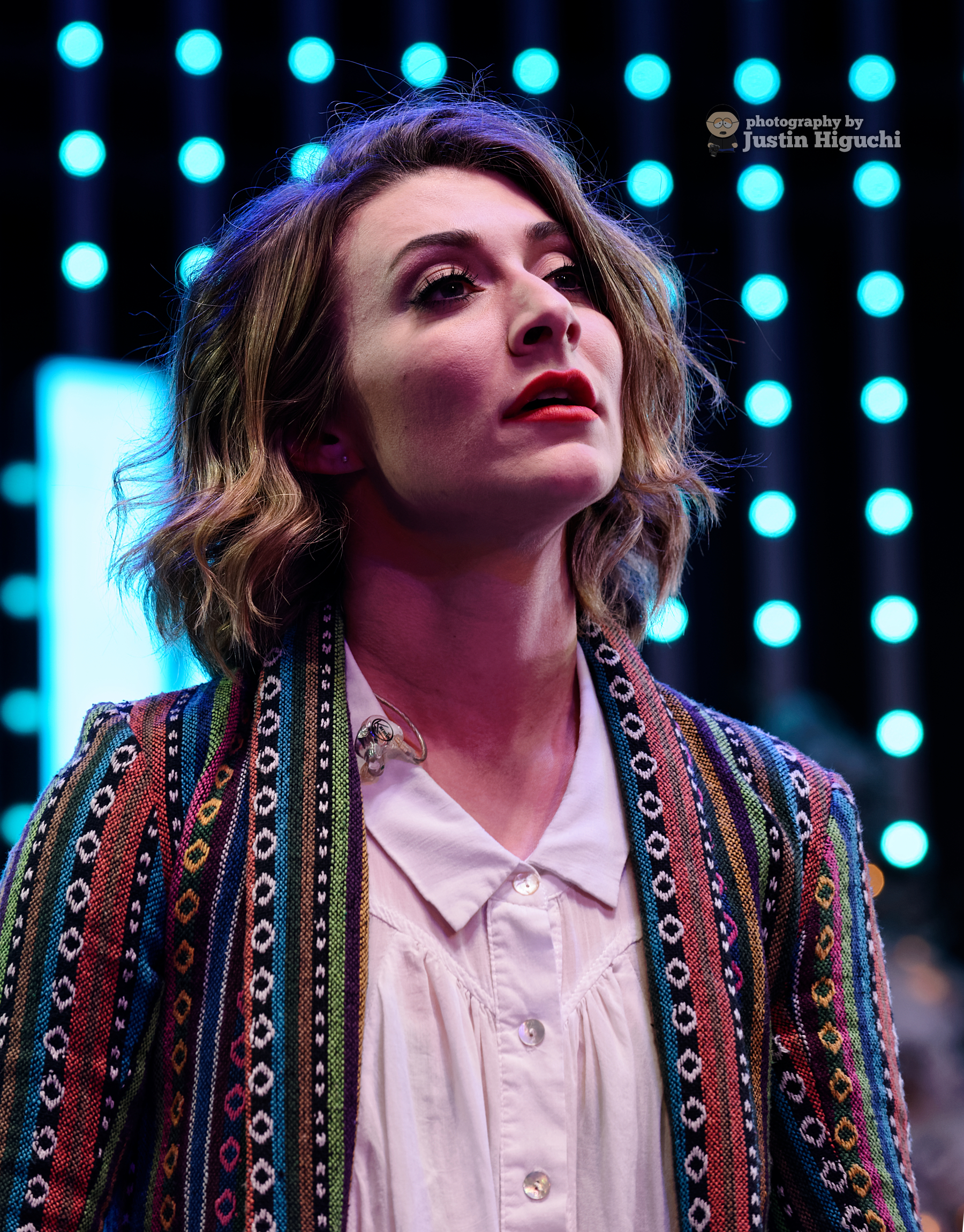 Karmin (Amy Heidemann & Nick Noonan) performing live at the 5 Towers stage on Universal CityWalk in Universal City California on Saturday November 28th, 2015. Riot Child opened.